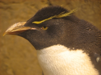 Rock Hopper Penguin Taken at Louisville Zoo, November 5th 2006